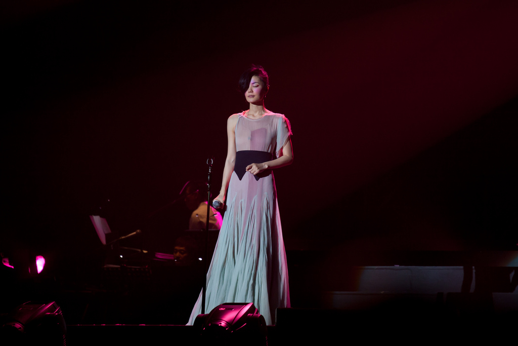 Faye Wong in concert 2011, Hong Kong.